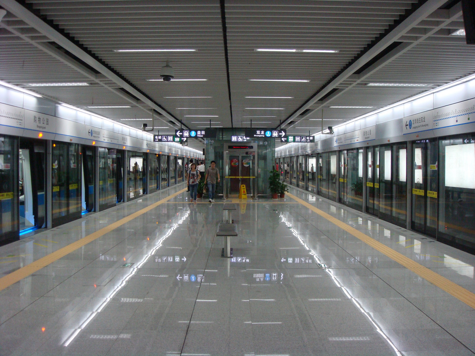 Shopping Park Station of Longgang Line, Shenzhen Metro.